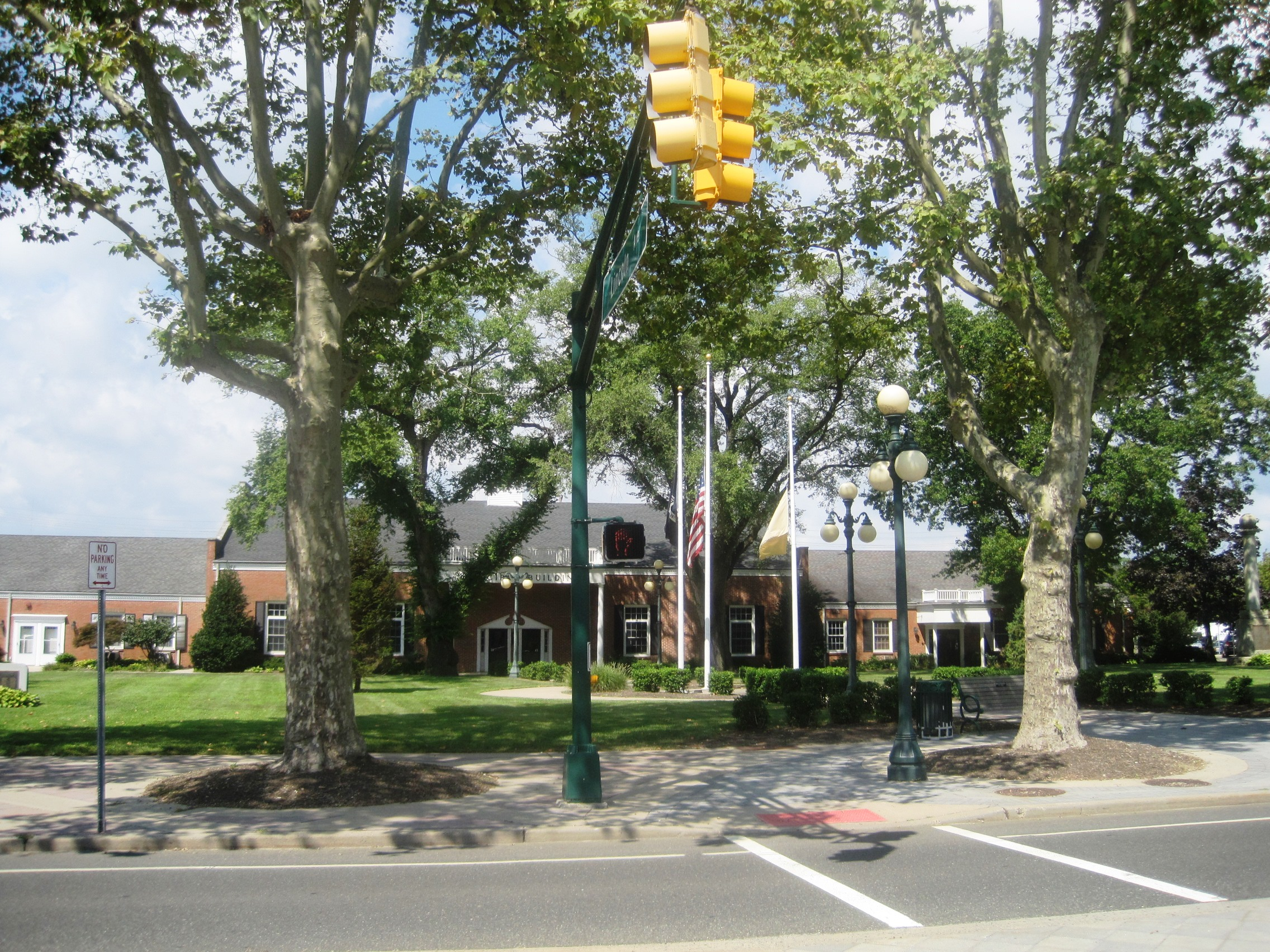 Photo showing the town hall of Avon-by-the-Sea, New Jersey. Photo taken from the intersection of Main Street (New Jersey Route 71) and Lincoln Avenue.